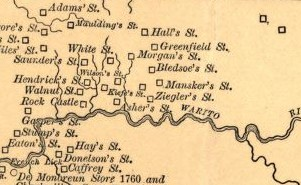 Detail of Goodspeed's 1886 "Aboriginal Map of Tennessee" showing various 18th-century forts and settlements in the Upper Cumberland region.